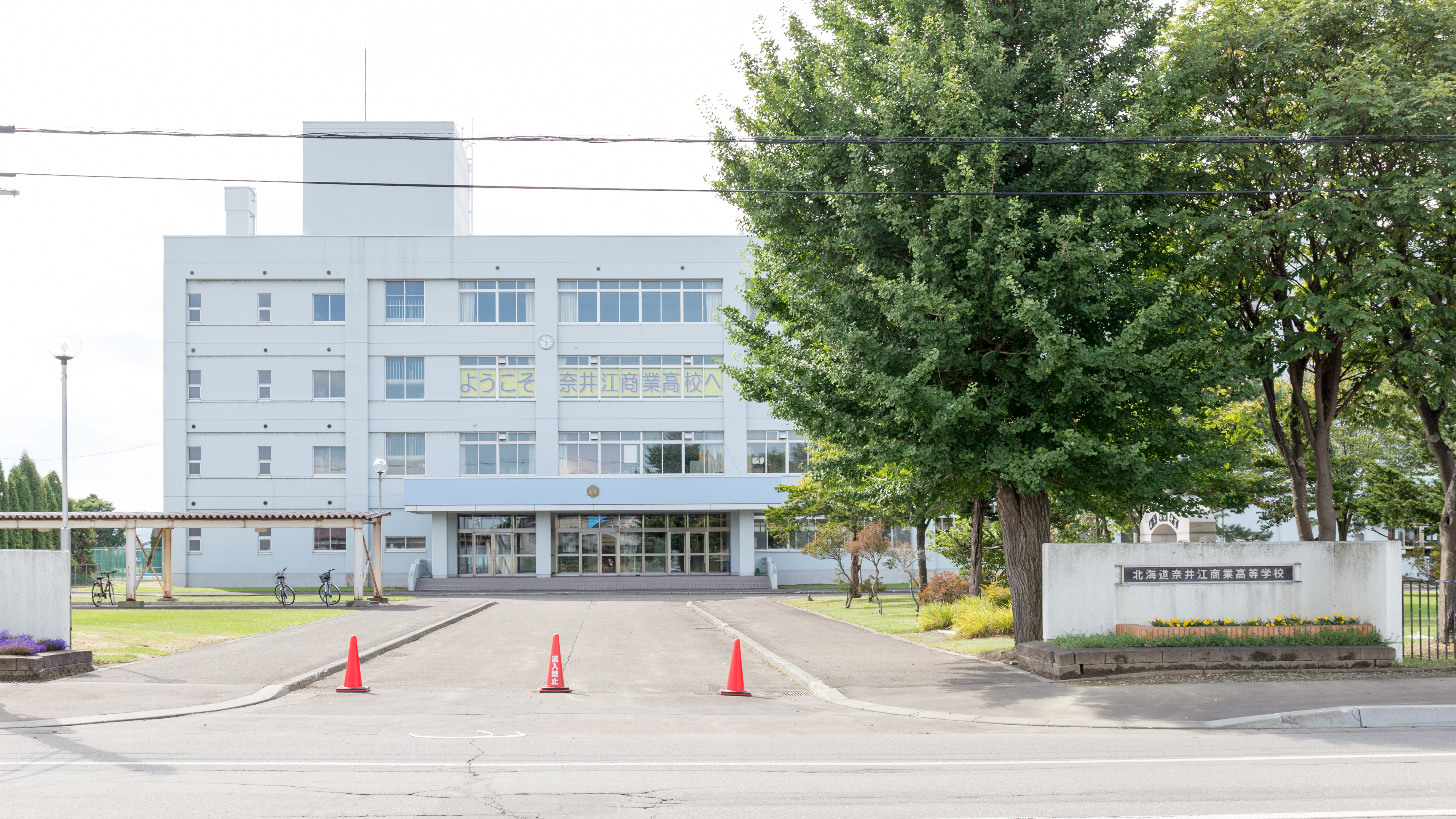 Hokkaido Naie Commercial High School in Naie Town, Hokkaido, Japan